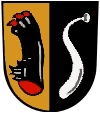 Coat of arms of Běšiny